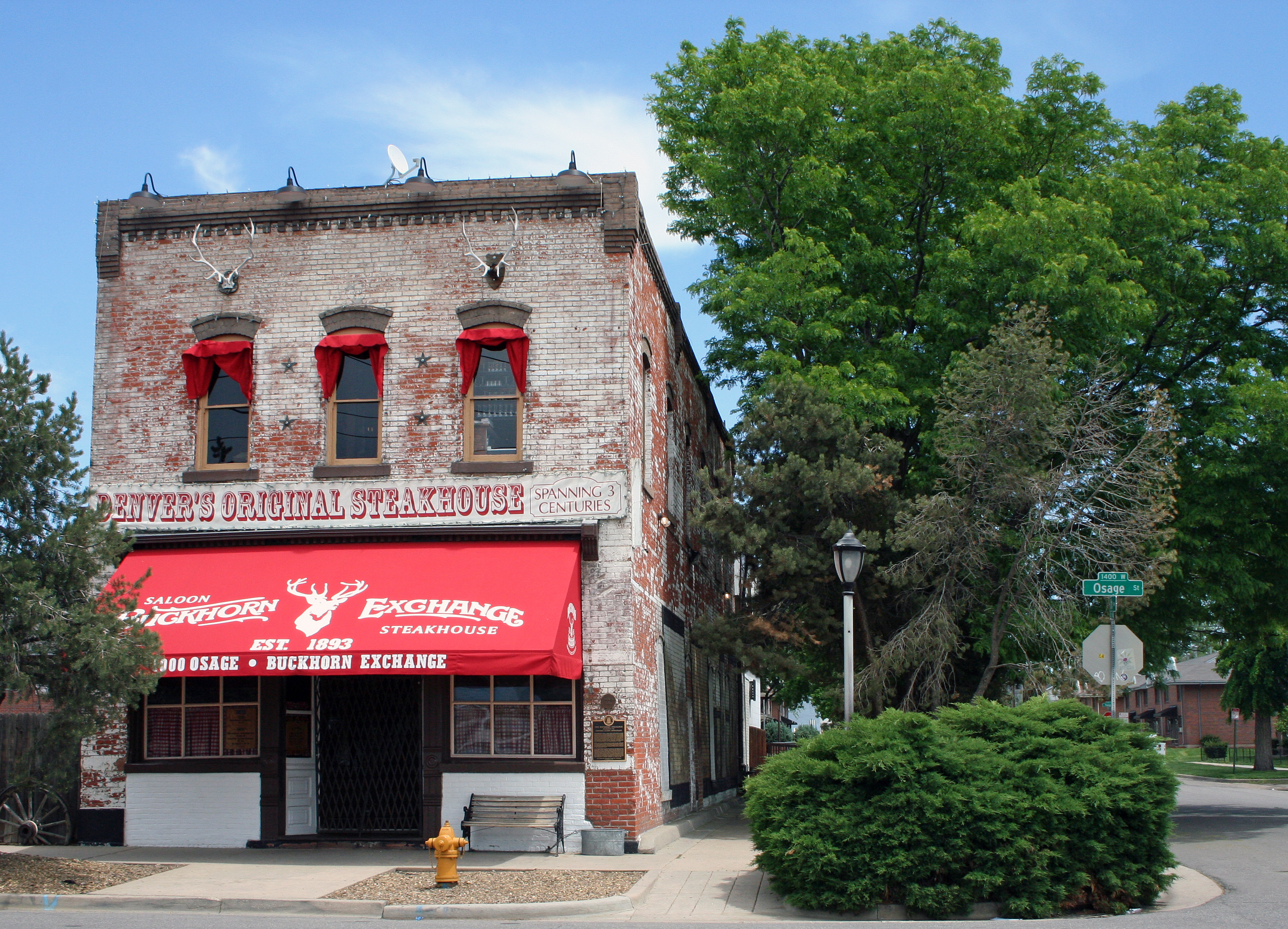 The Buckhorn Exchange, an historic restaurant in the Lincoln Park neighborhood of Denver, Colorado.